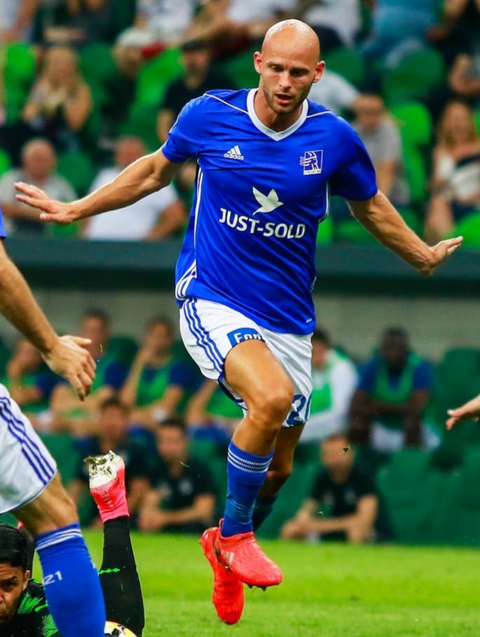 Jeppe Brandrup with Lyngby in an Europa League game against FC Krasnodar.